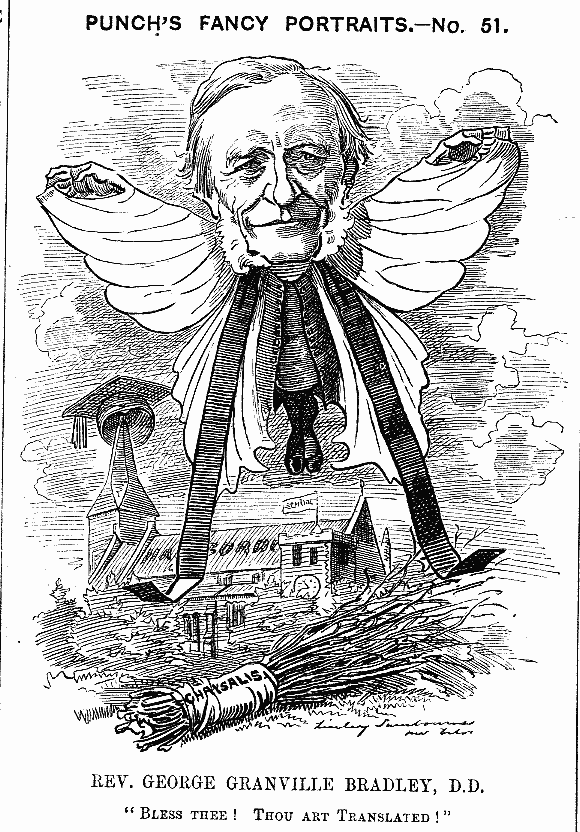 Caricature of George Granville Bradley: scanned from Punch, 1 October 1881, page 154. Artwork by Edward Linley Sambourne